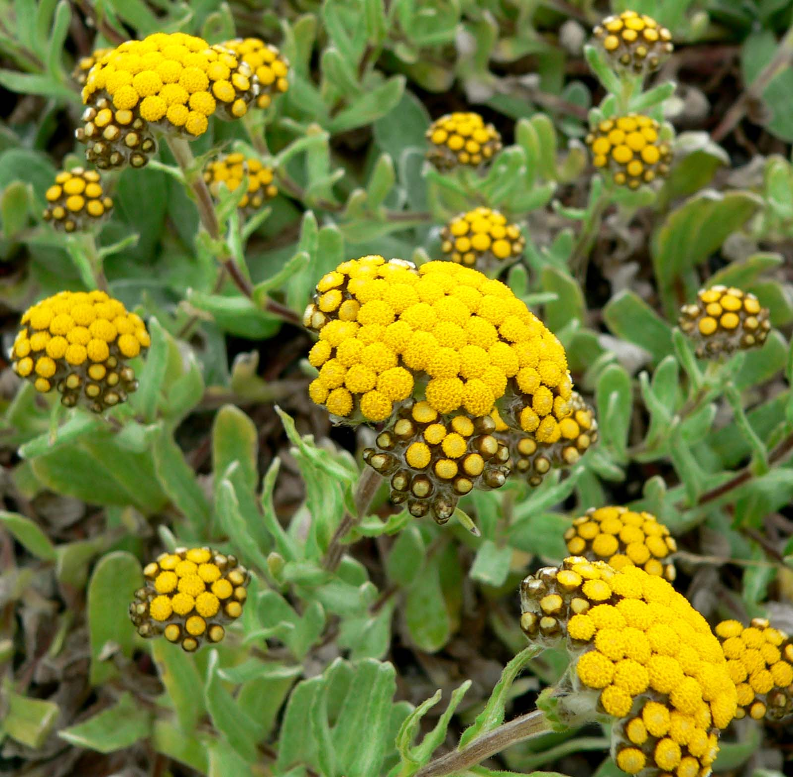 Photo of Helichrysum basalticum at the UBC Botanical Garden